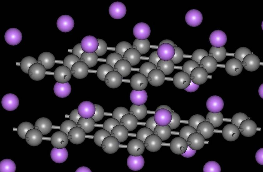 Structure of Ca-intercalated graphite CaC6